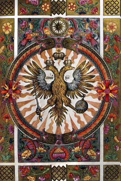 Page with Double-headed eagle (of Russia) from Tsarskiy titulyarnik.